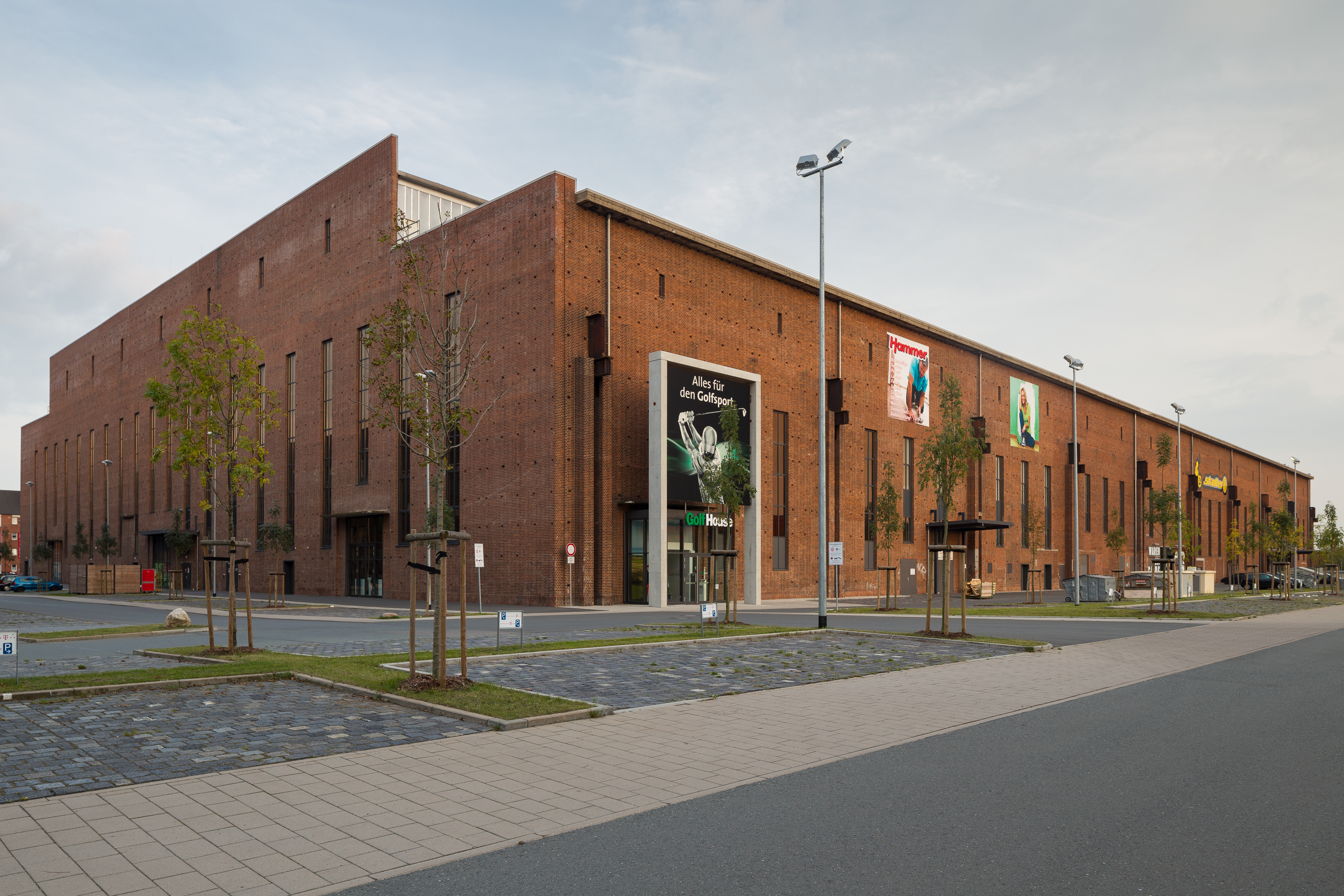 "U-Boot-Halle", former factory building for the production of submarines during world war II by former Hanomag company. The building is located between Elfriede-Paul-Allee and Goettinger Straße in Linden-Süd district of Hanover, Lower Saxony, Germany.